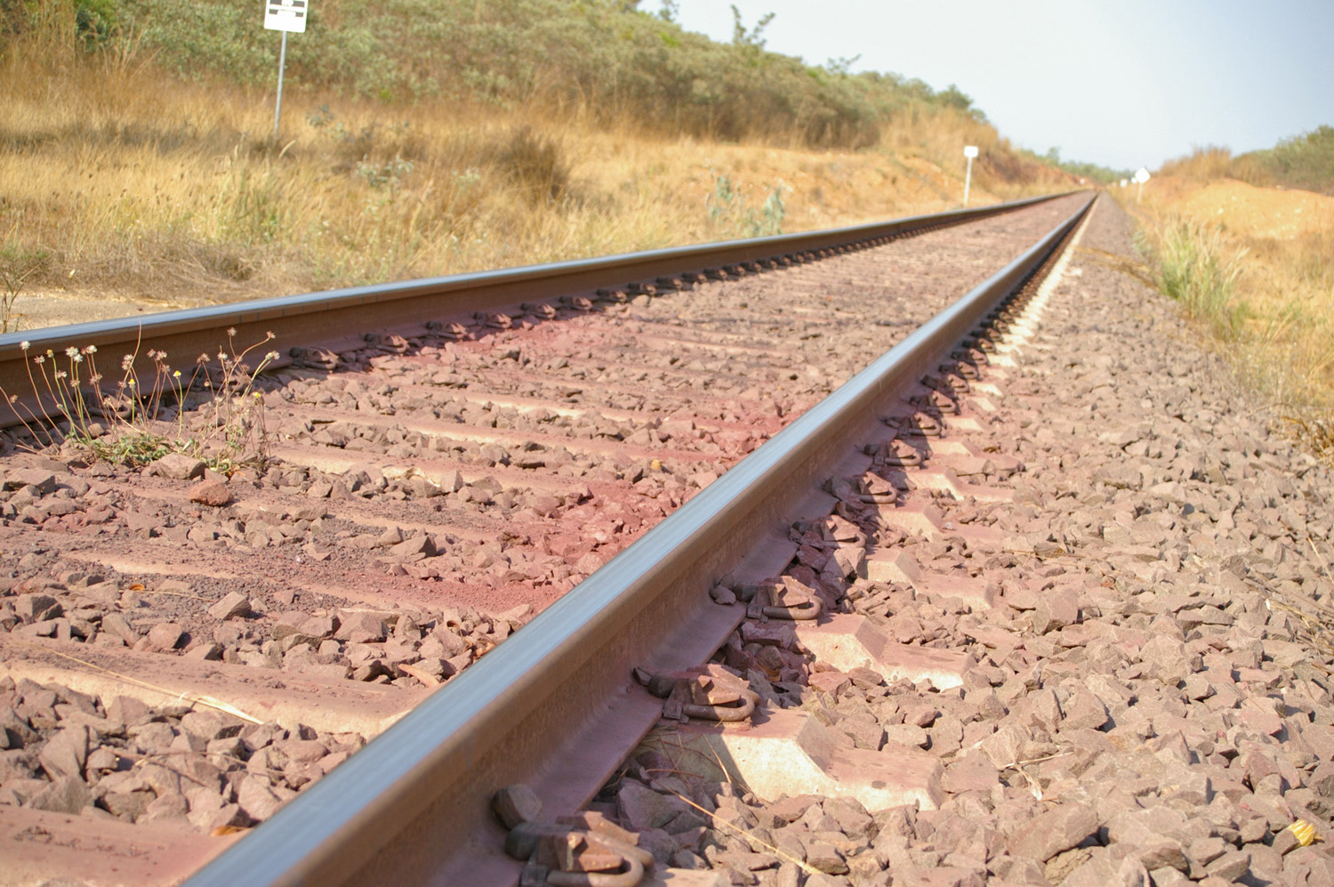 Darwin-Adelaide railway line, taken in the suburb of Berrimah in Darwin, Northern Territory